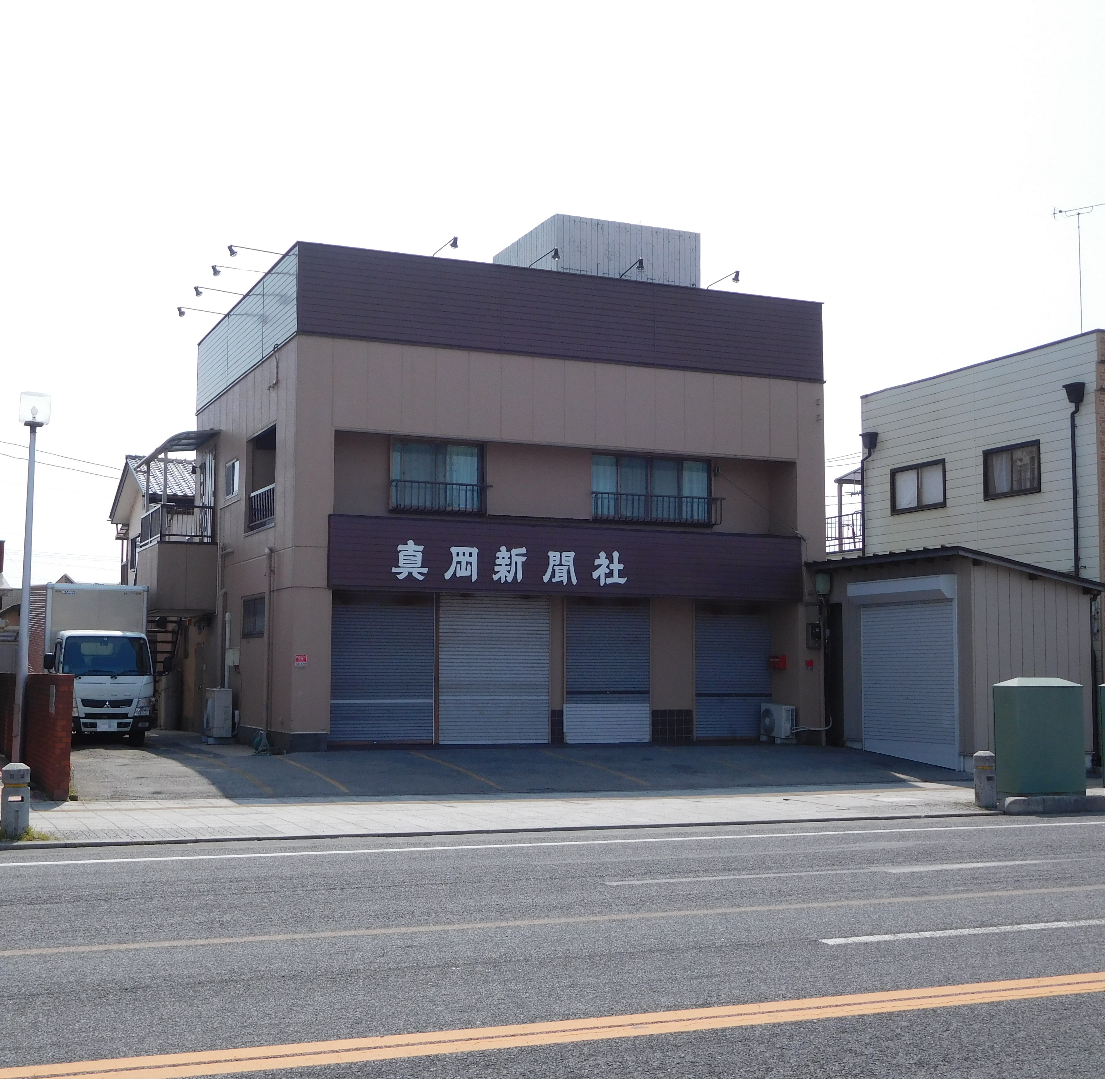 This is the headquarters of Moka News Agency in Moka, Tochigi, Japan.